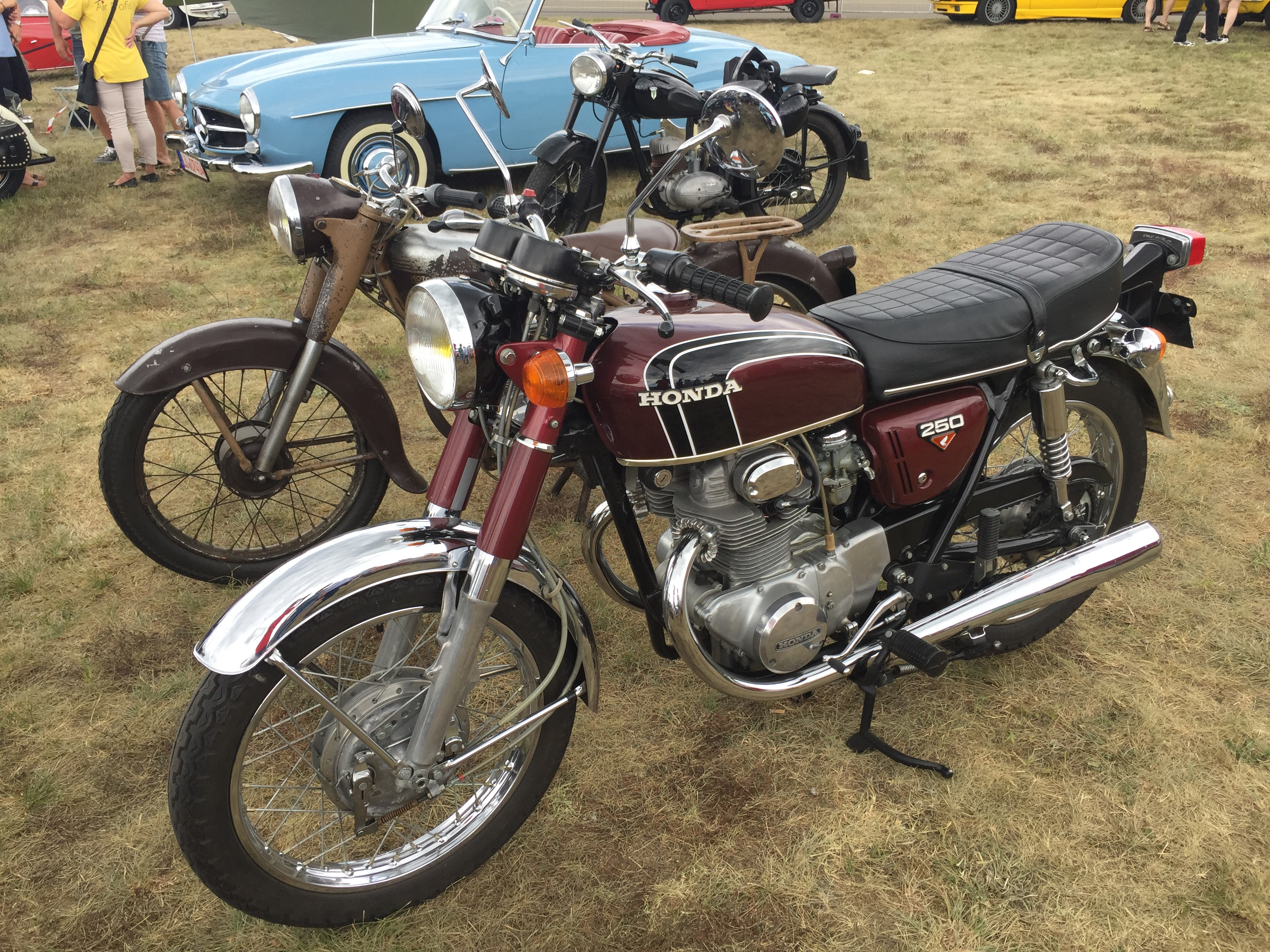 nice and fast bike from summer 1970